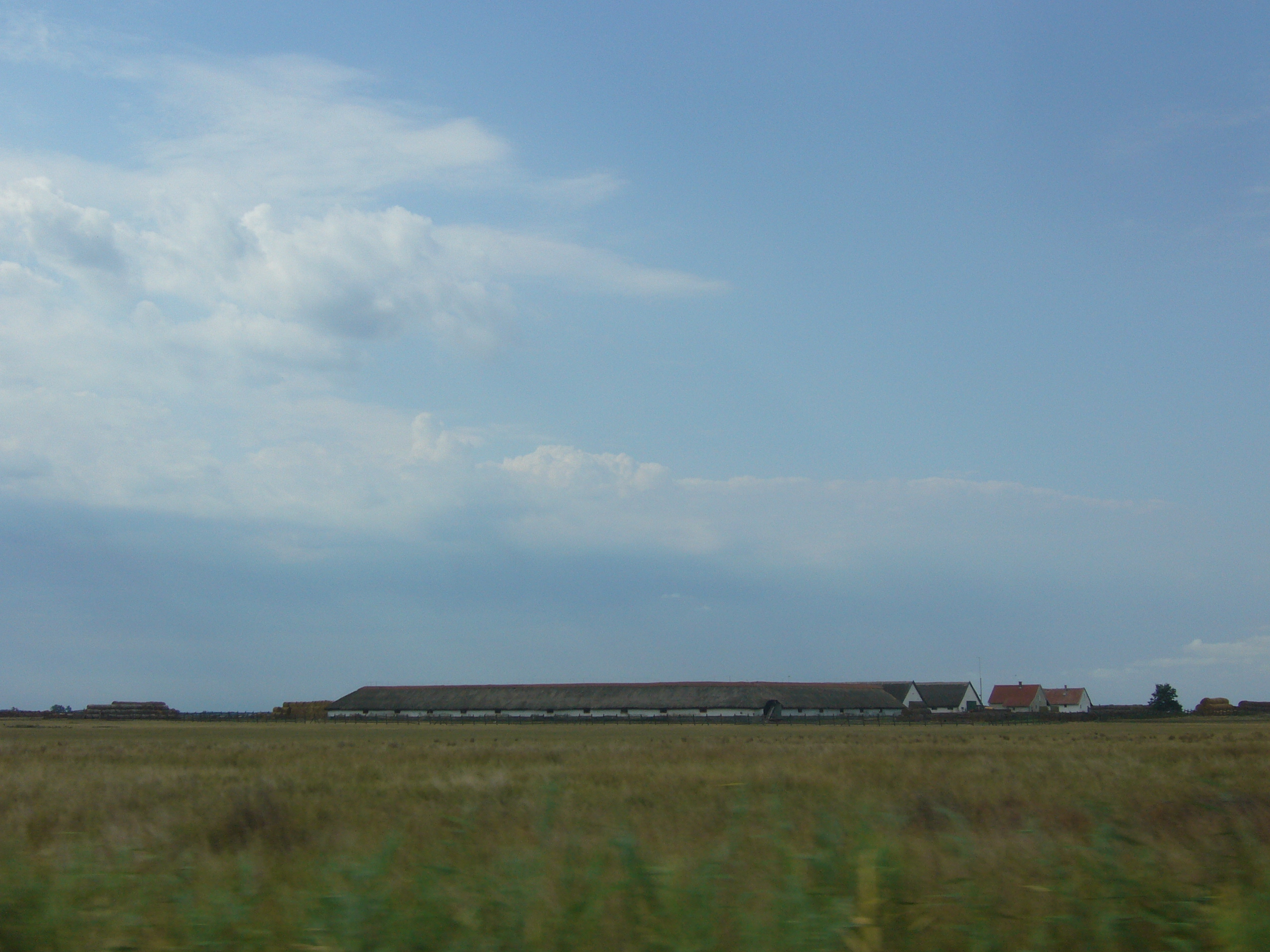 Hungarian bare in Hortobágy